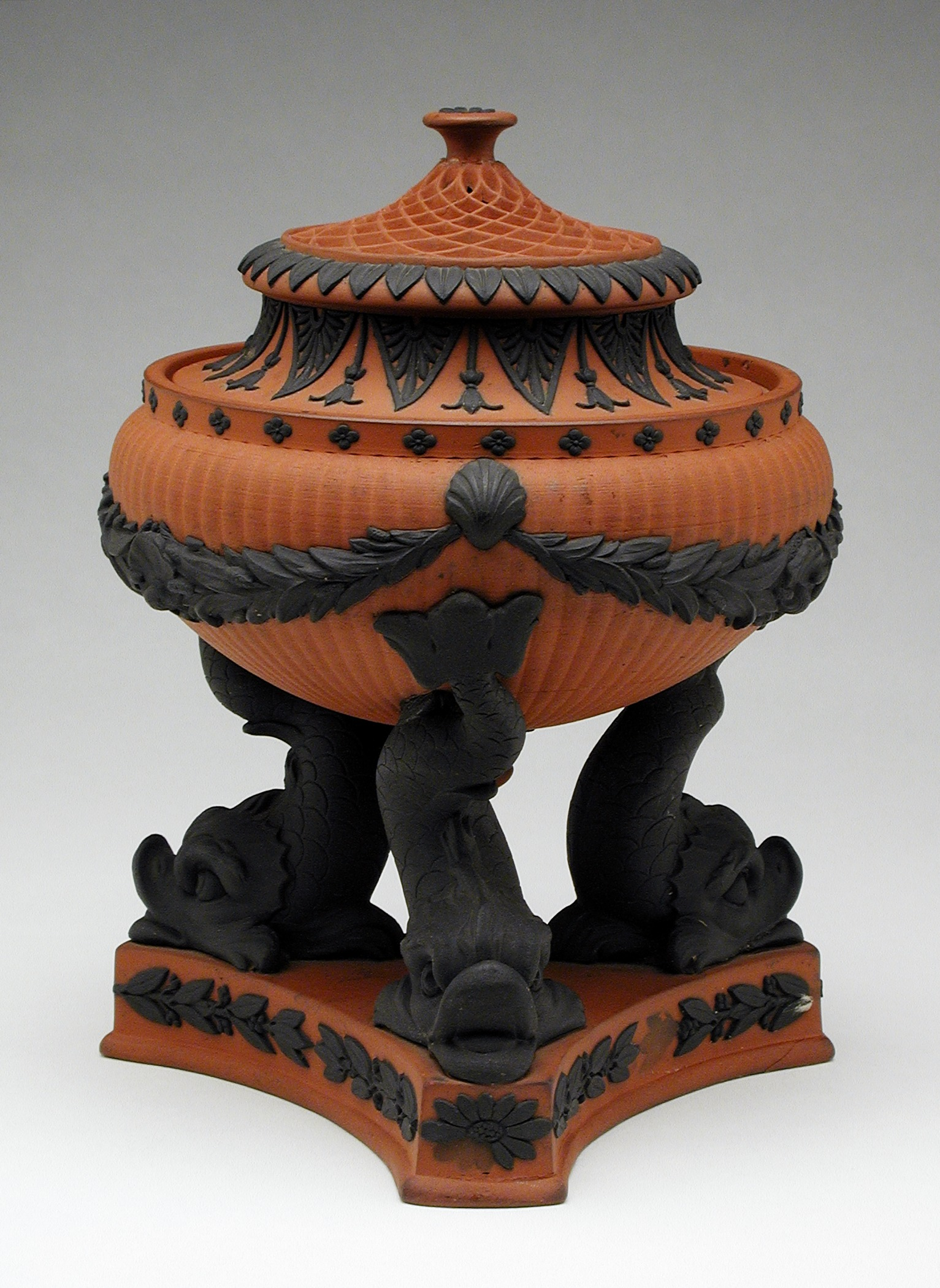 England, Staffordshire or Europe, circa 1830-1850 Tools and Equipment; burners Stoneware with metallic-oxide stain Height: 6 3/8 in. (16.19 cm); Diameter: 4 3/4 in. (12.07 cm) Gift of Alice Braunfeld (AC1997.109.11.1-.2) Decorative Arts and Design Currently on public view: Ahmanson Building, floor 3